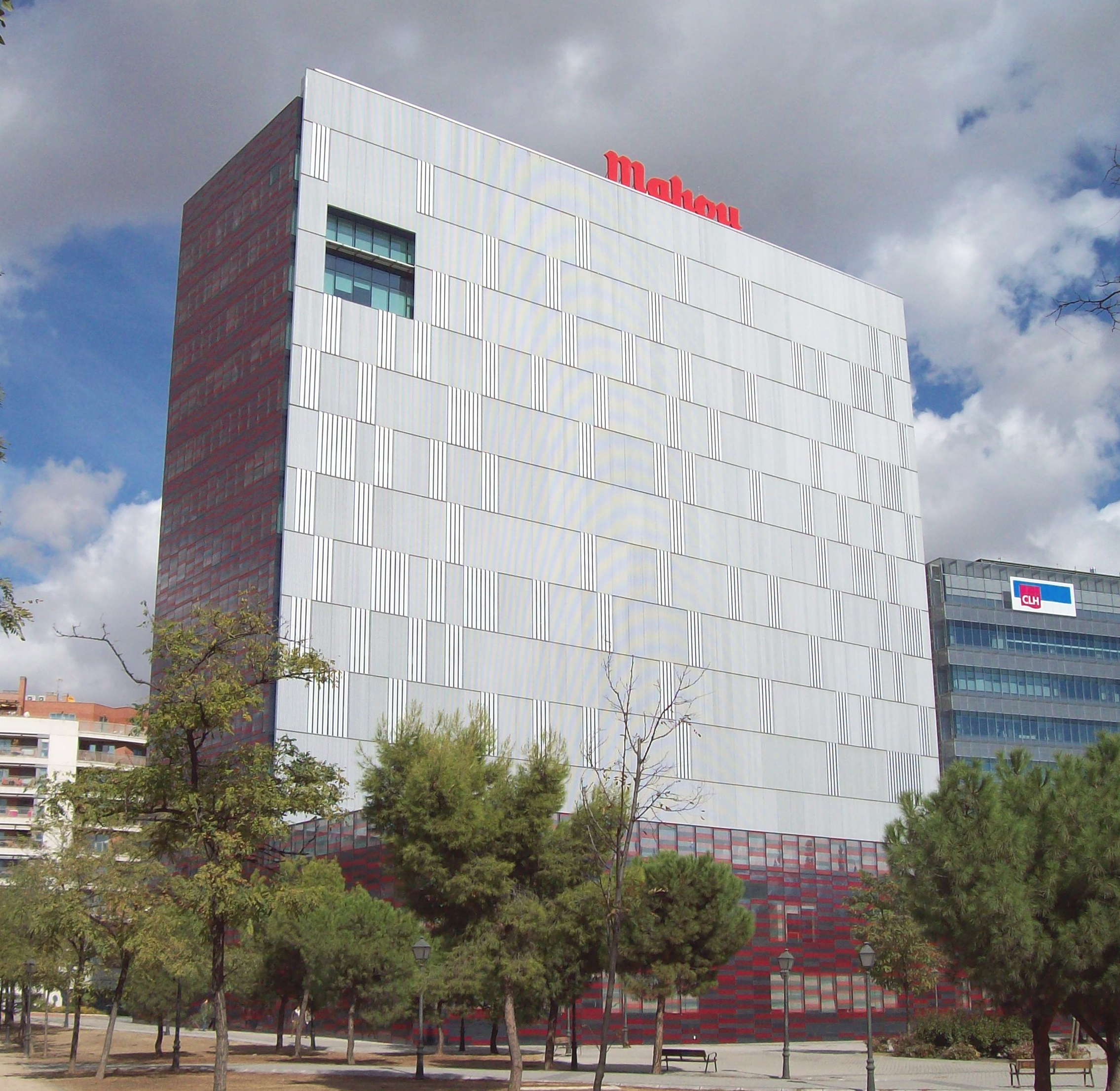 South façade of Nozar Building in Madrid (Spain).